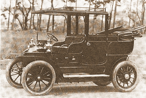 1908 Pilgrim 25/30 hp